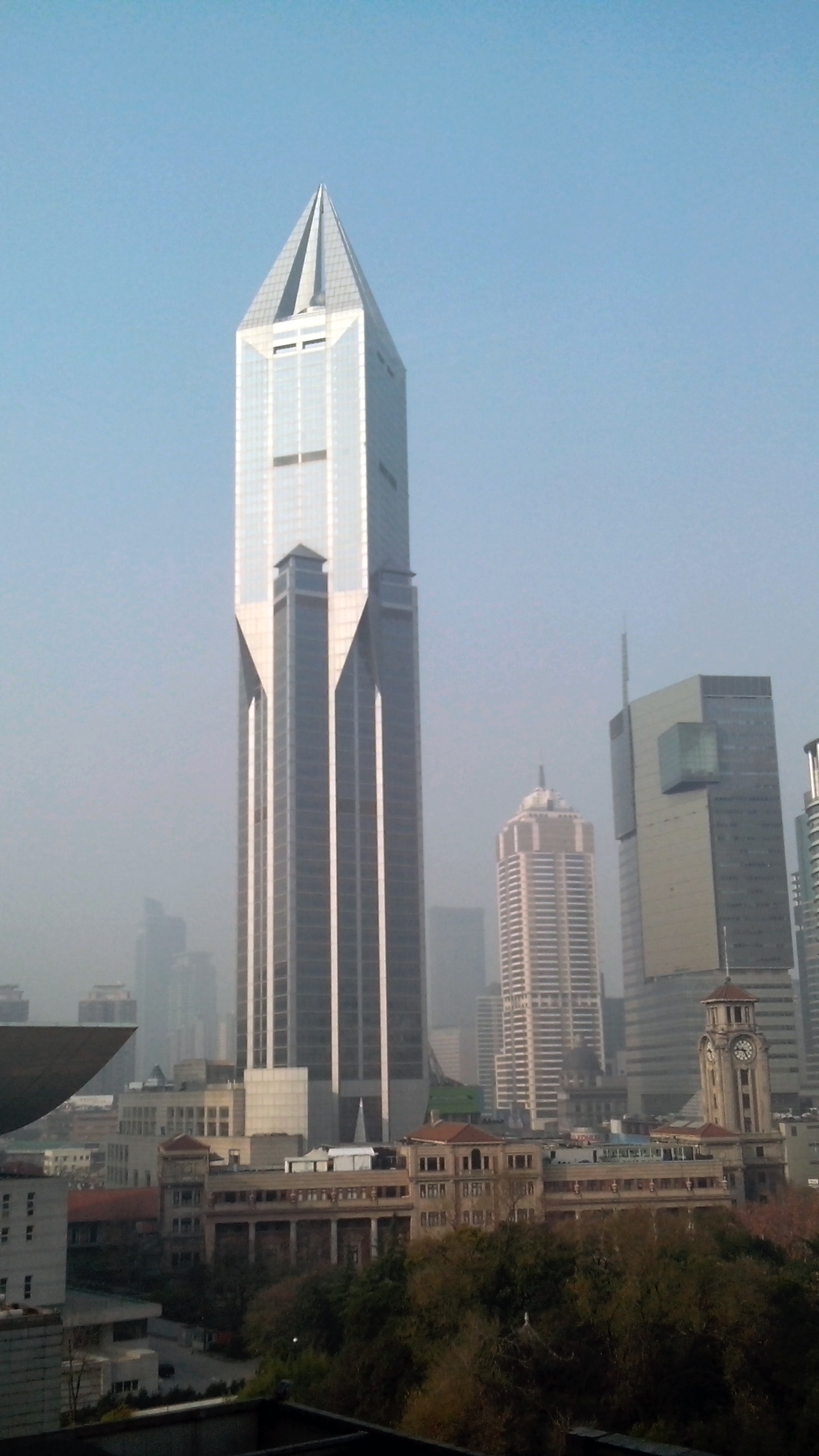 Tomorrow_Square shanghai